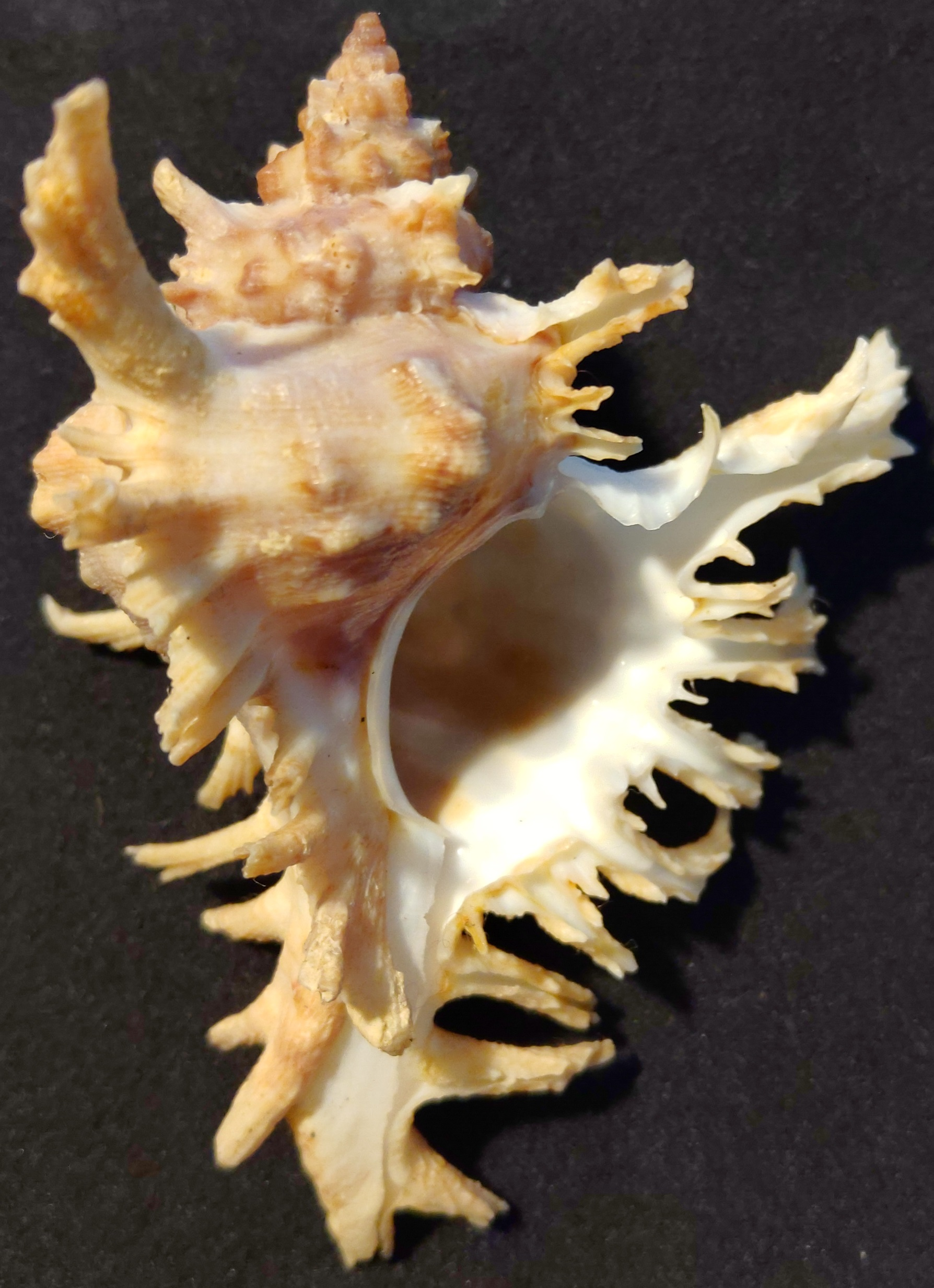 Chicoreus Asianus Front